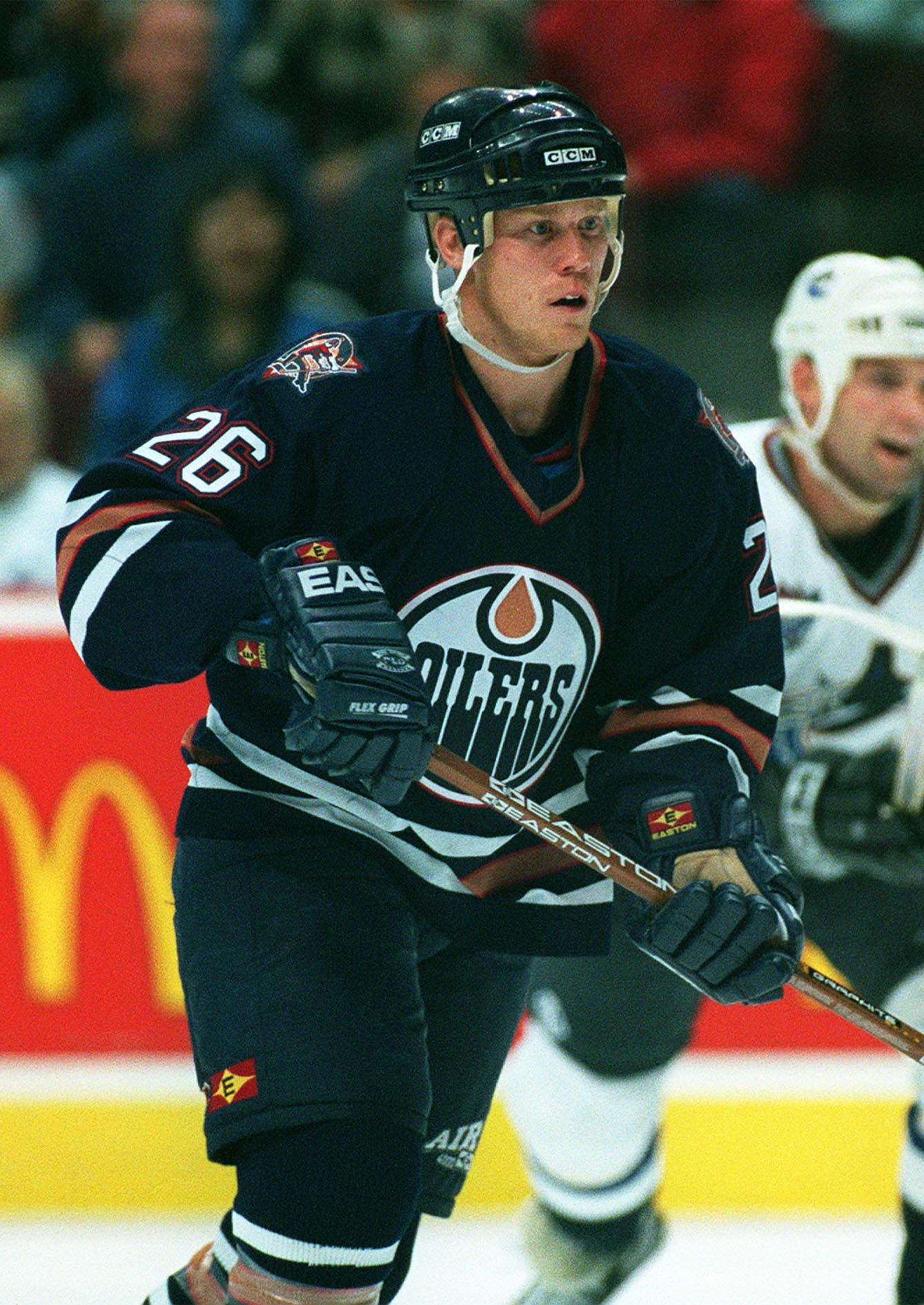 Todd Marchant playing an NHL game for the Edmonton Oilers, at the Edmonton Coliseum.